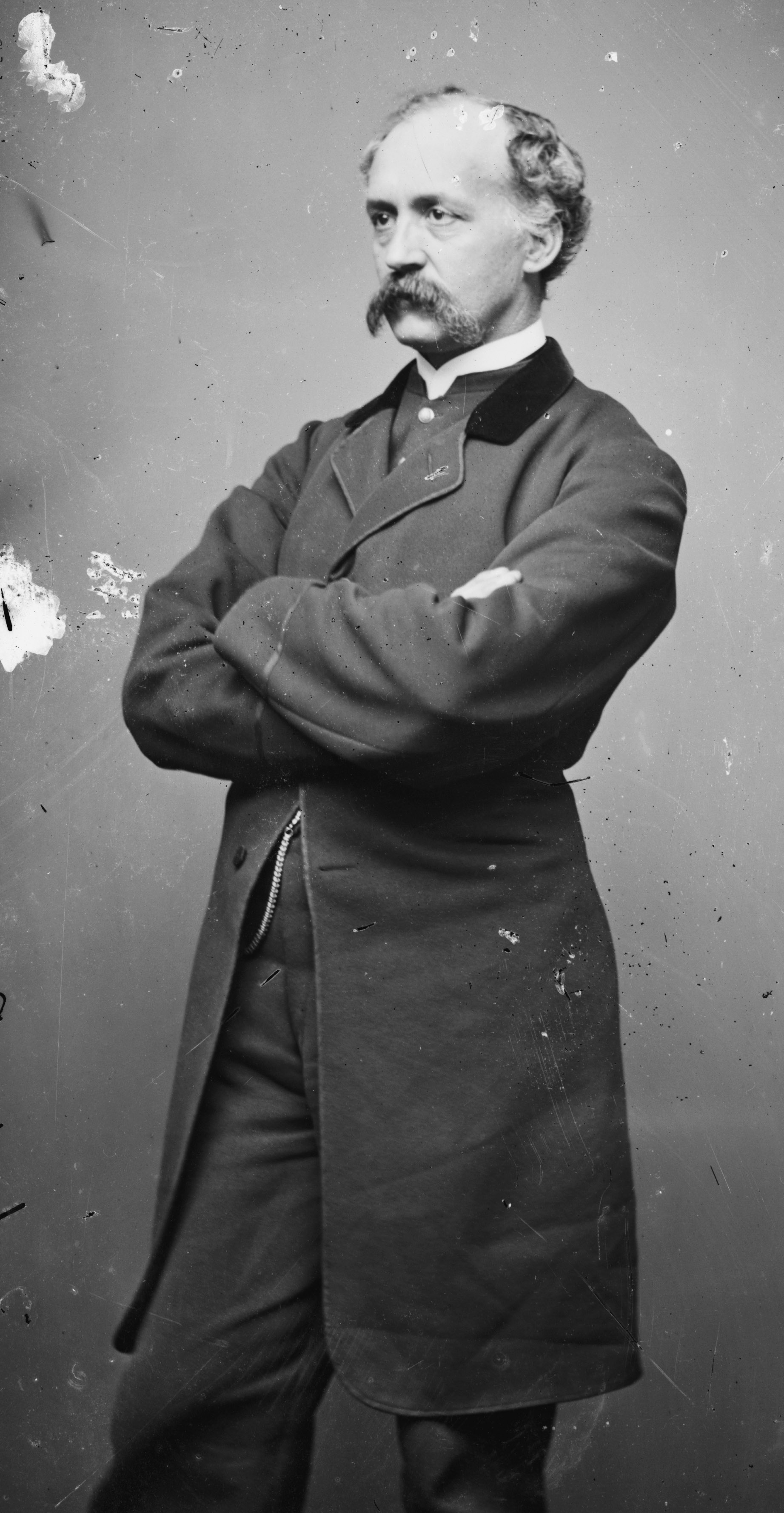 Henry Winter Davis, former member of the United States House of Representatives.